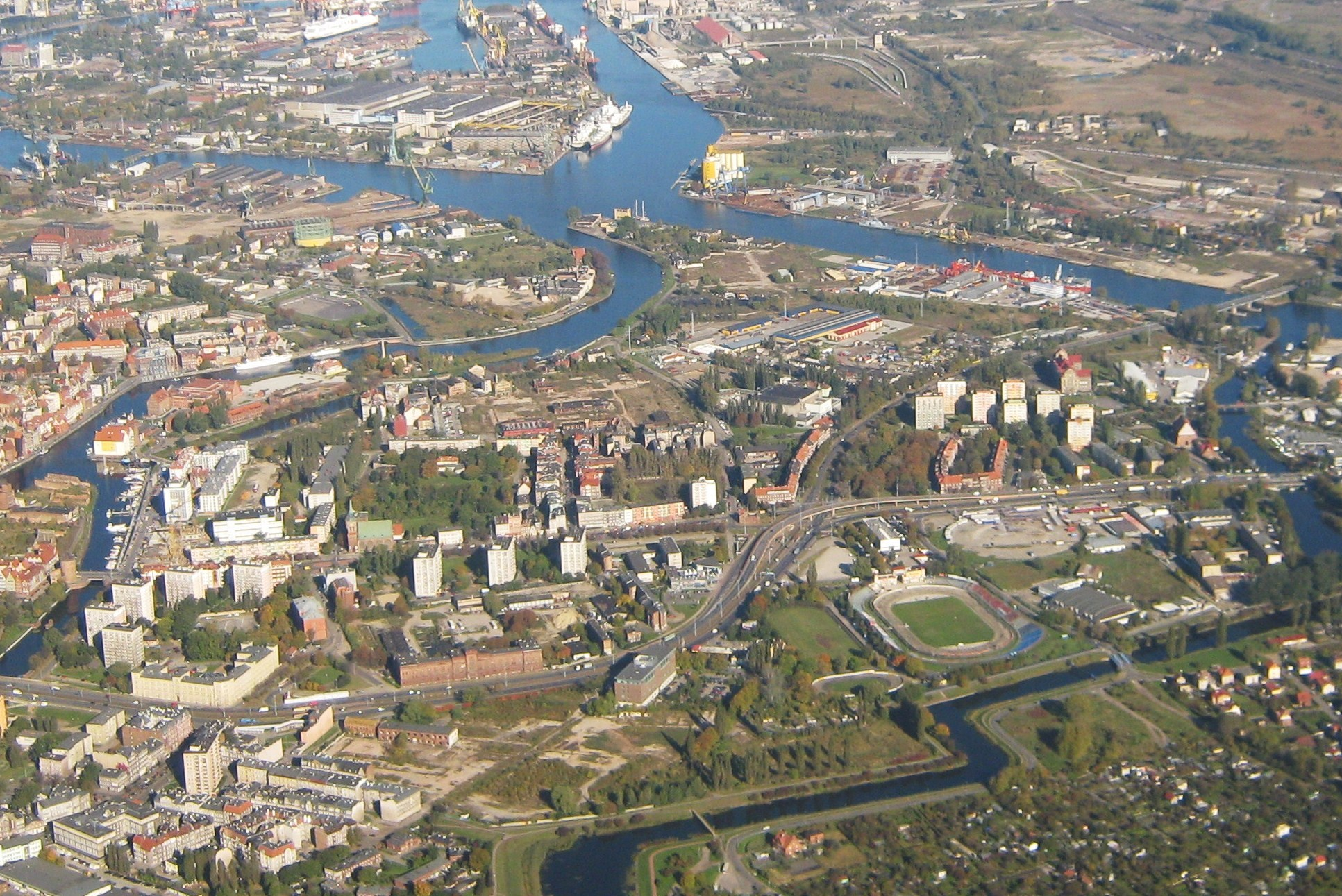 Gdańsk Downtown.